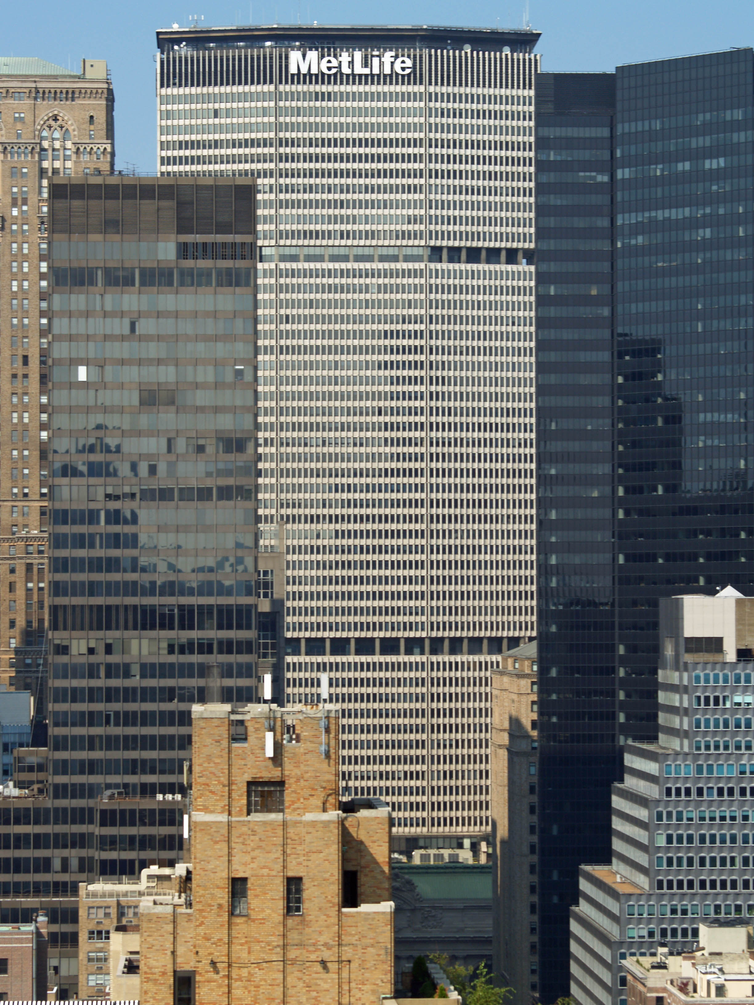 MetLife Building (formerly Pan Am building)